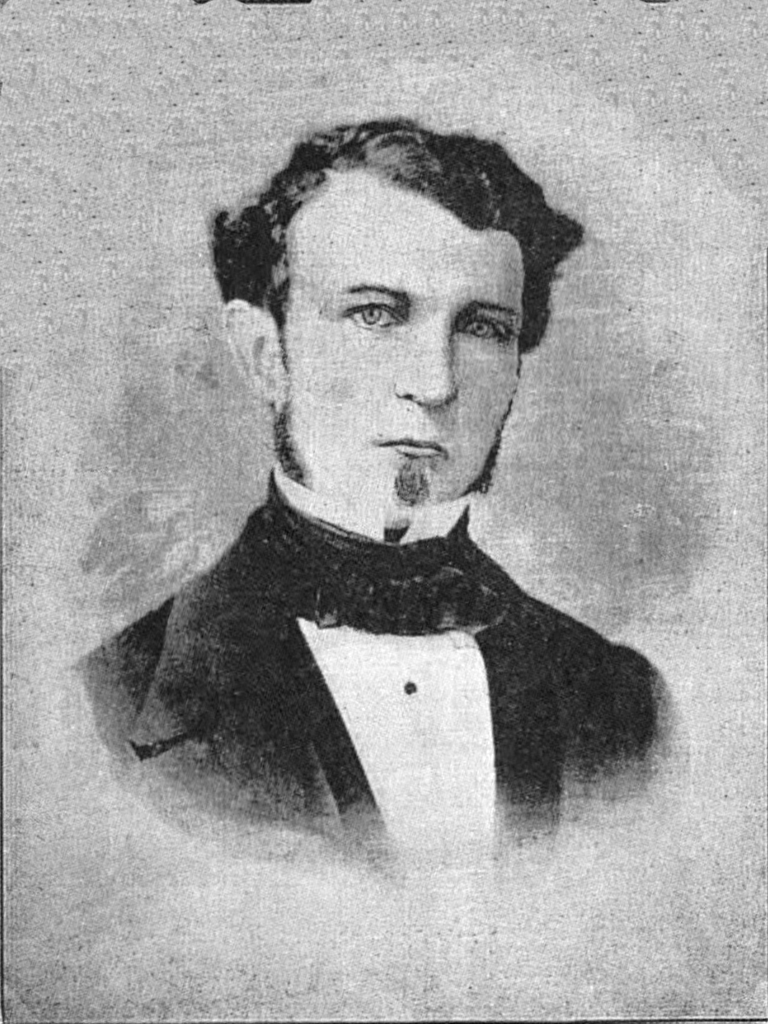 scan of page 6, the frontispiece of The Aborigines of Australia (1888). The image is none too good, there was no higher quality source and I didn't bother manipulating it. Converted to png from jpg, because I am told to do so, the file size blew out x6 It's pretty crudely cropped too, slight rotation might be the go. The caption reads "RODERICK J. FLANAGAN." [the author of this work] "Engraved from a Photograph in possession of the Author's Brother (Mr, E. F. Flanagan), taken in 1862," conveniently summarising details for the image.